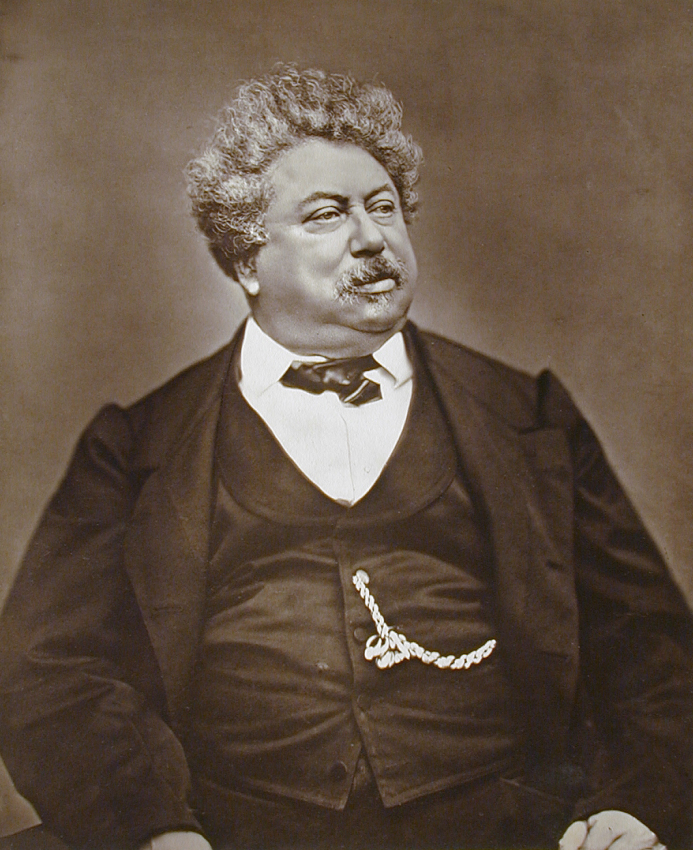 France, 1876-1884 Book: Galerie Contemporaine Volume, number, page: Volume 3 Photographs Woodburytype The Audrey and Sydney Irmas Collection (AC1992.229.34) Photography